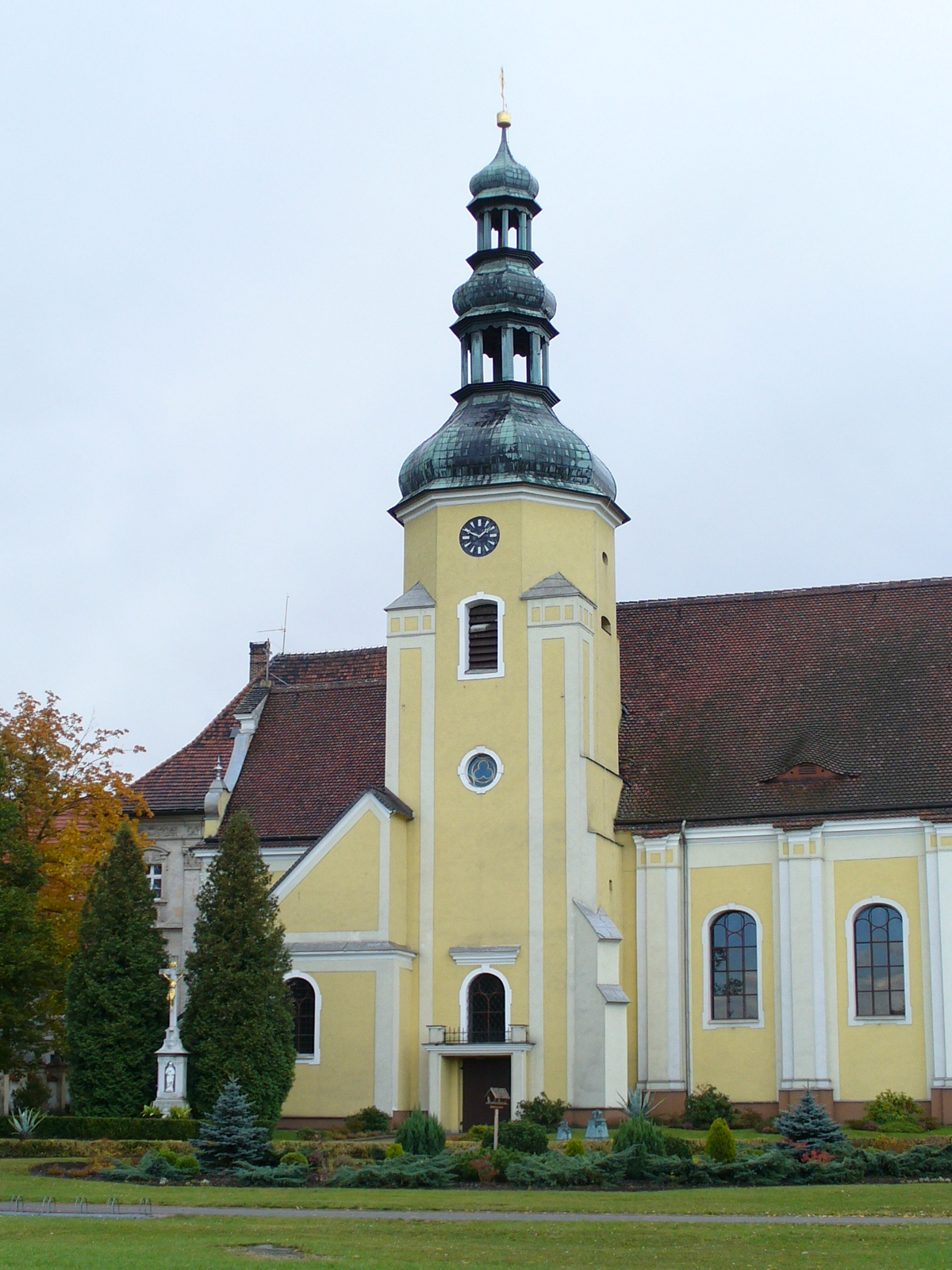 Church of Saint Norber of Xanten in Czarnowąsy